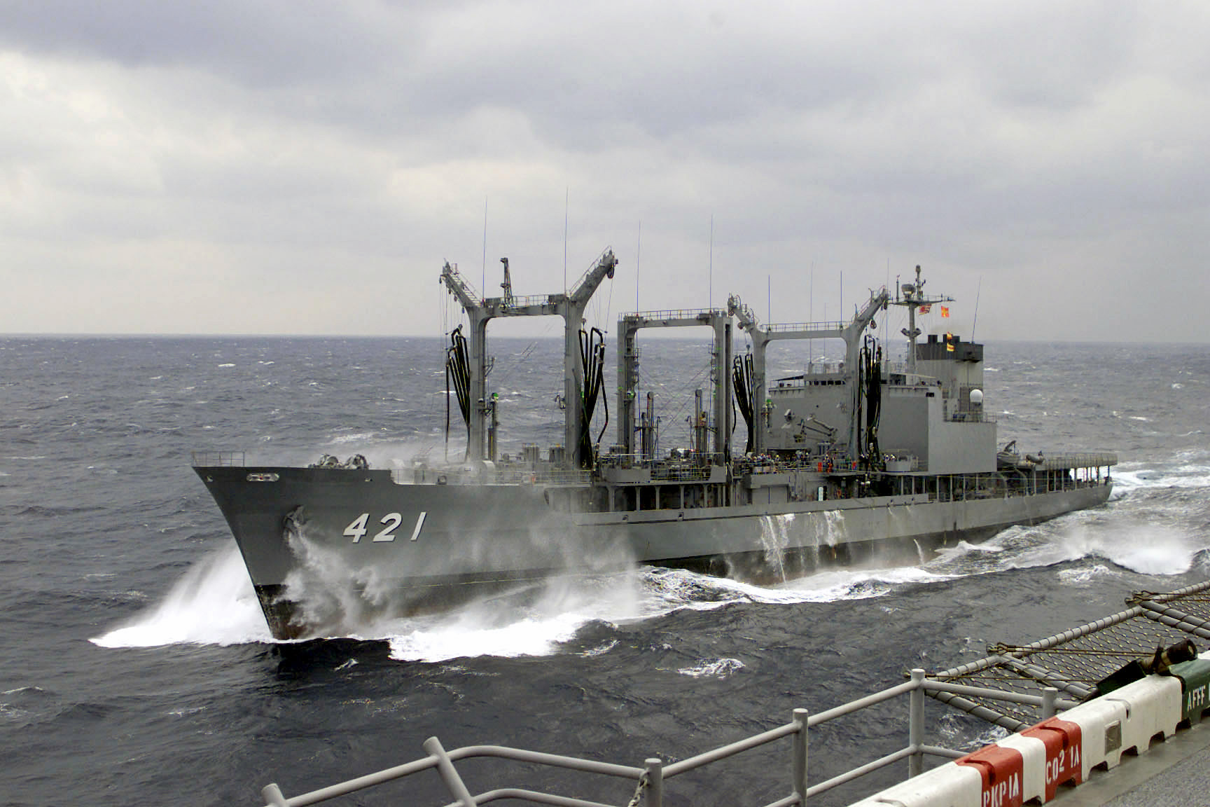 Japanese SAGAMI Class Replenishment Ship SAGAMI (AOE 421) pulls up along side participating in an underway replenishment at sea (UNREP).